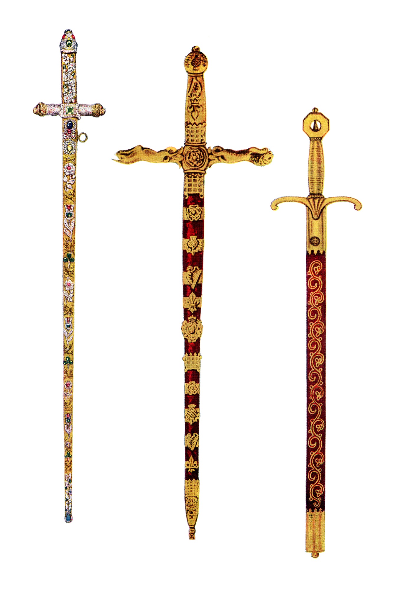 From left to right: The jewelled Sword of Offering, the Sword of State, and the Sword of Mercy (Curtana).